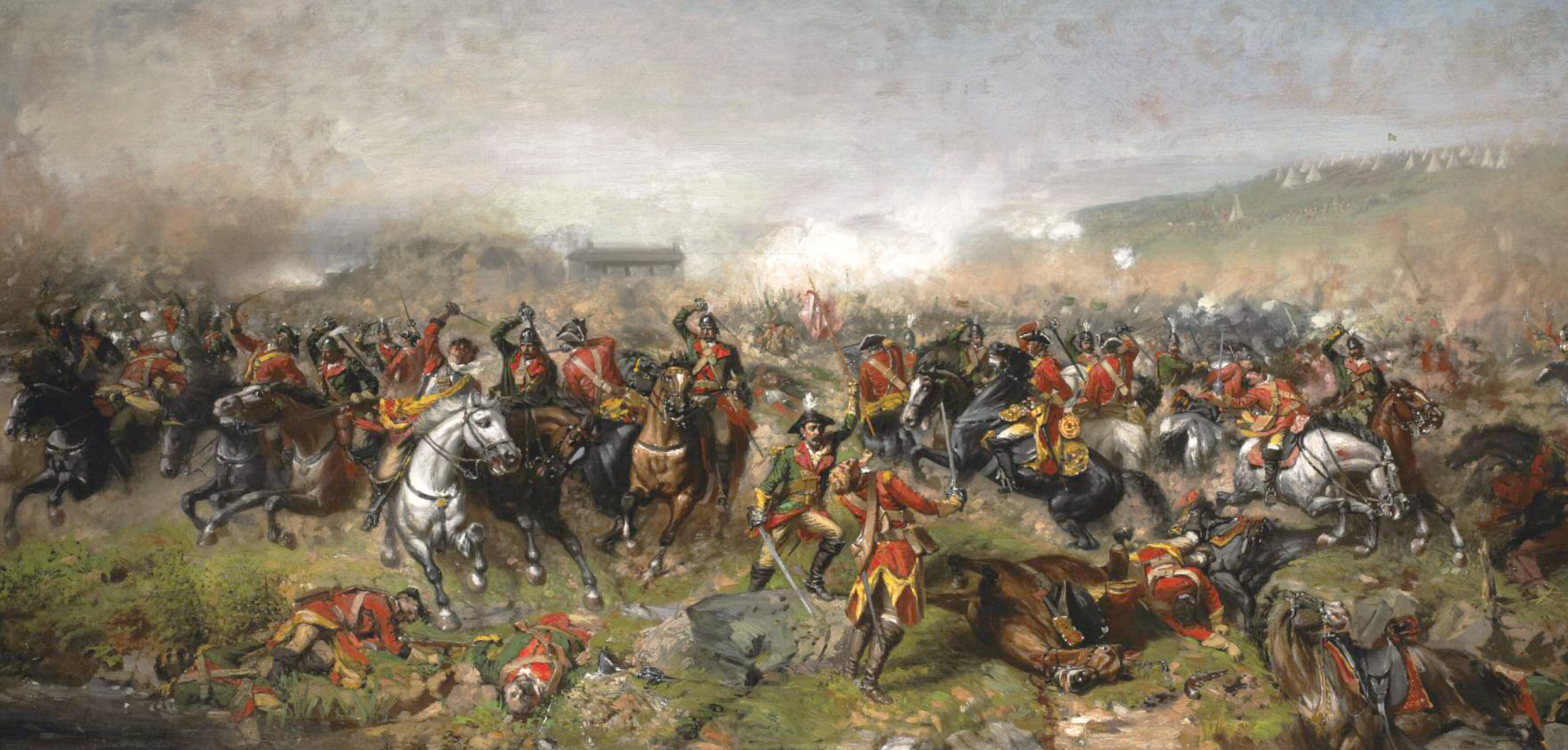 Depiction of the Battle of Aughrim (1691) by John Mulvany. Note: image of painting was edited by Scolaire to remove text.